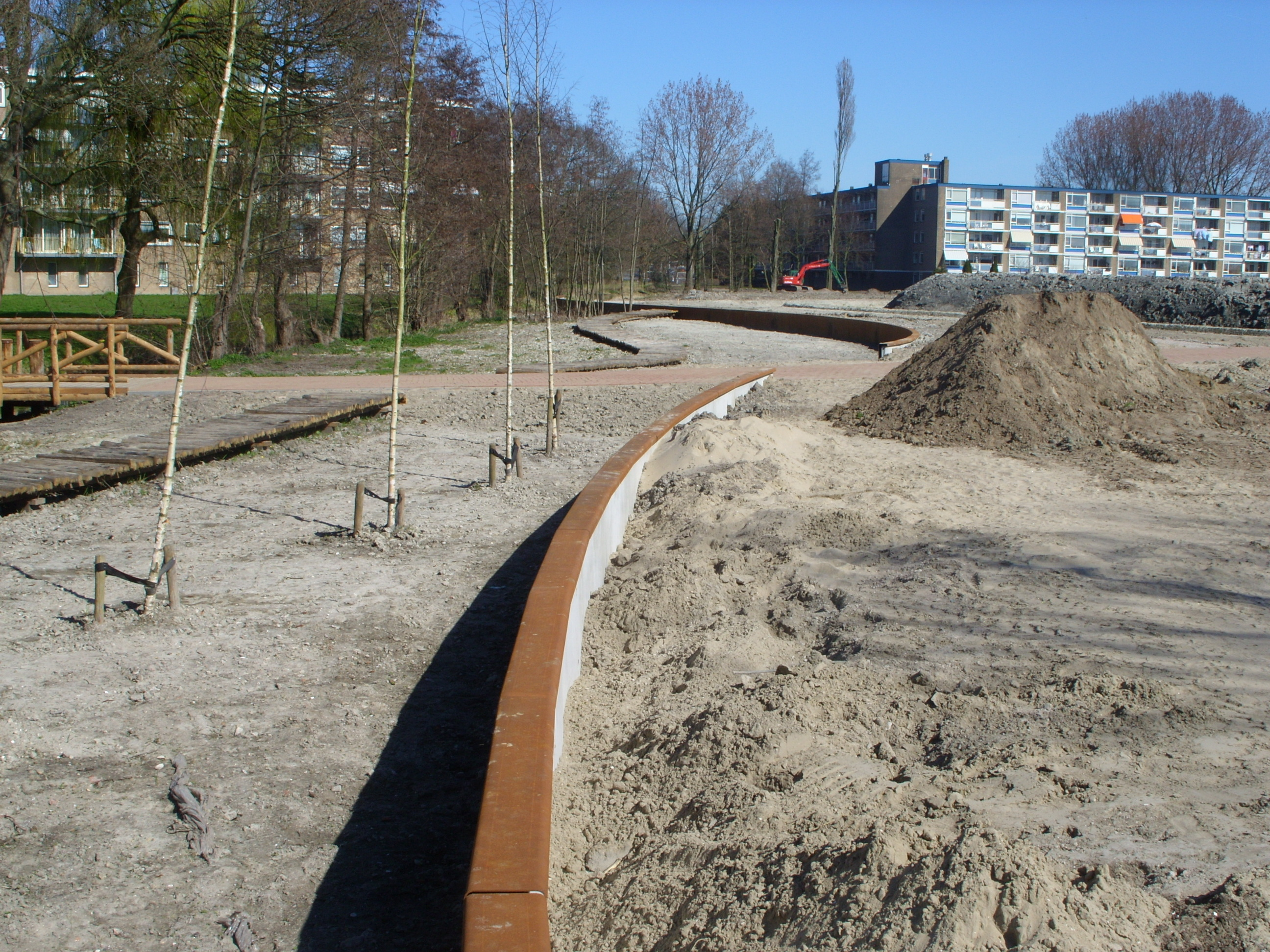 Reconstruction in progress of Roman Castellum Matilo in Leiden, The Netherlands, view of Fossa Corbulonis quay